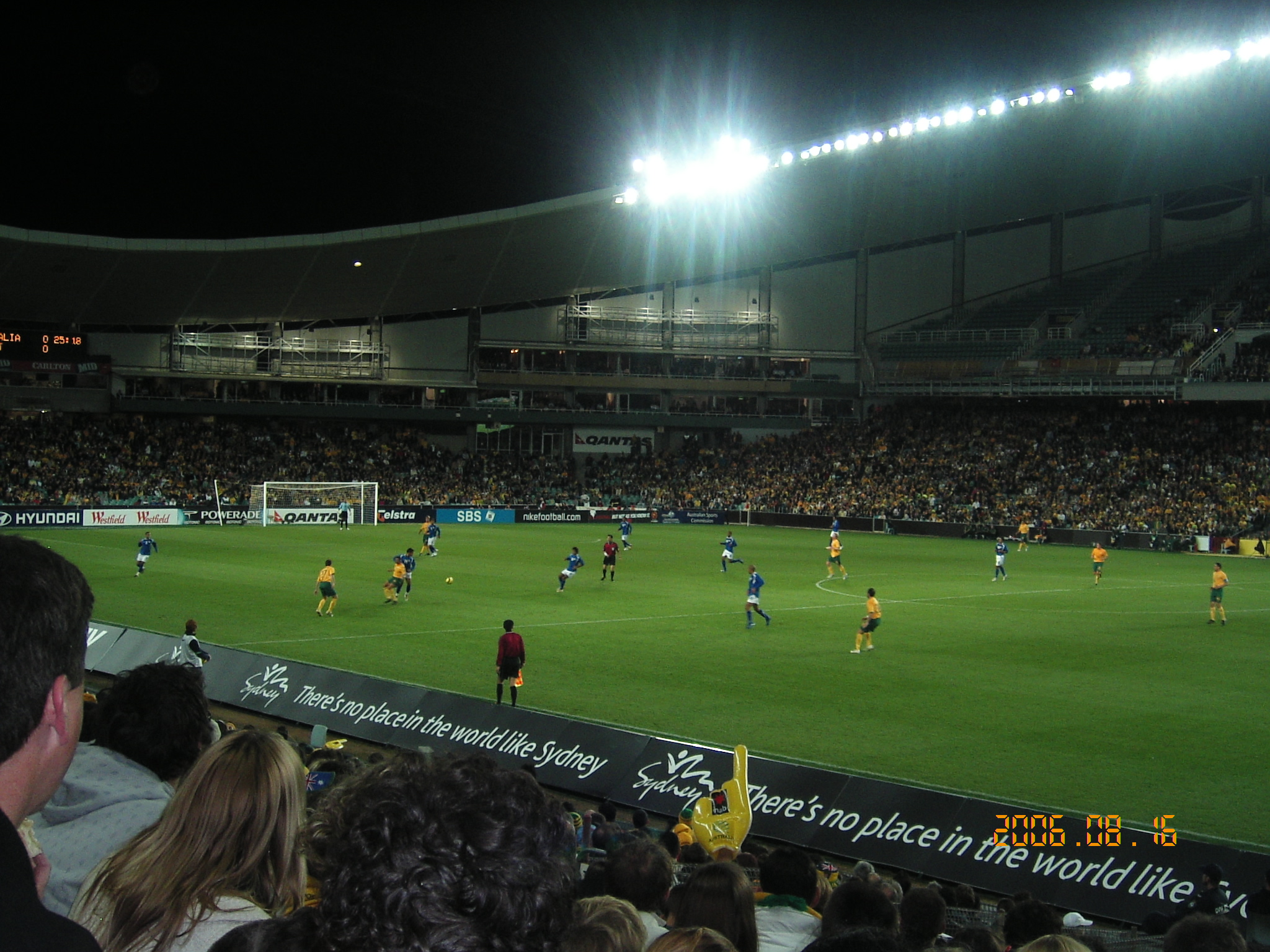 Aussie Stadium taken during Australia V Kuwait in an Asia Cup qualifier